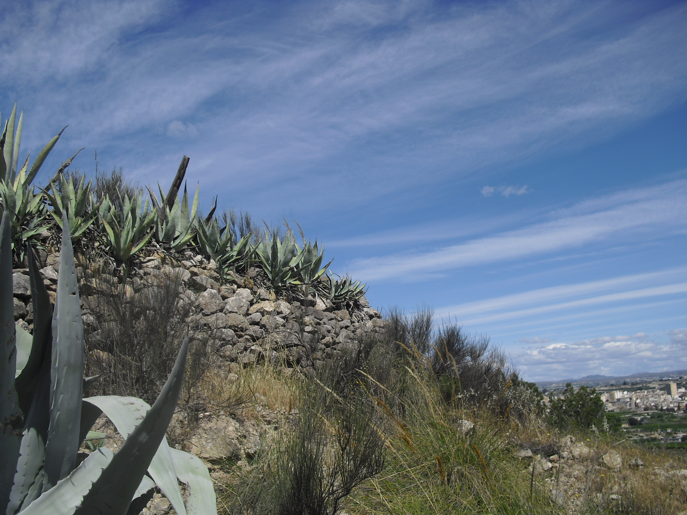 Fortificación en el Morrón de Bolvax